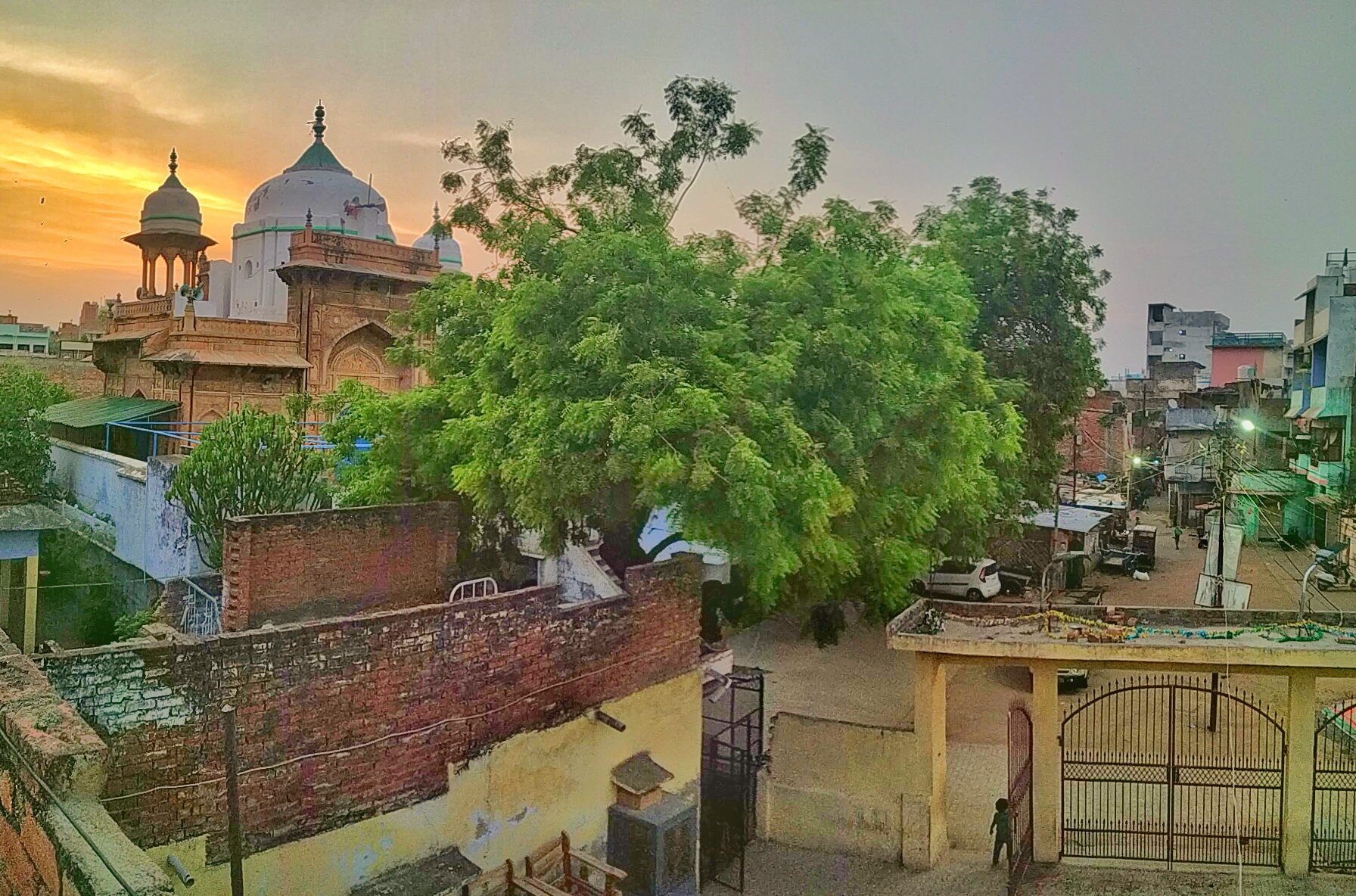 Daira Hazrat Shah Muhibbullah Allahabadi Bahadur ganj Allahabad